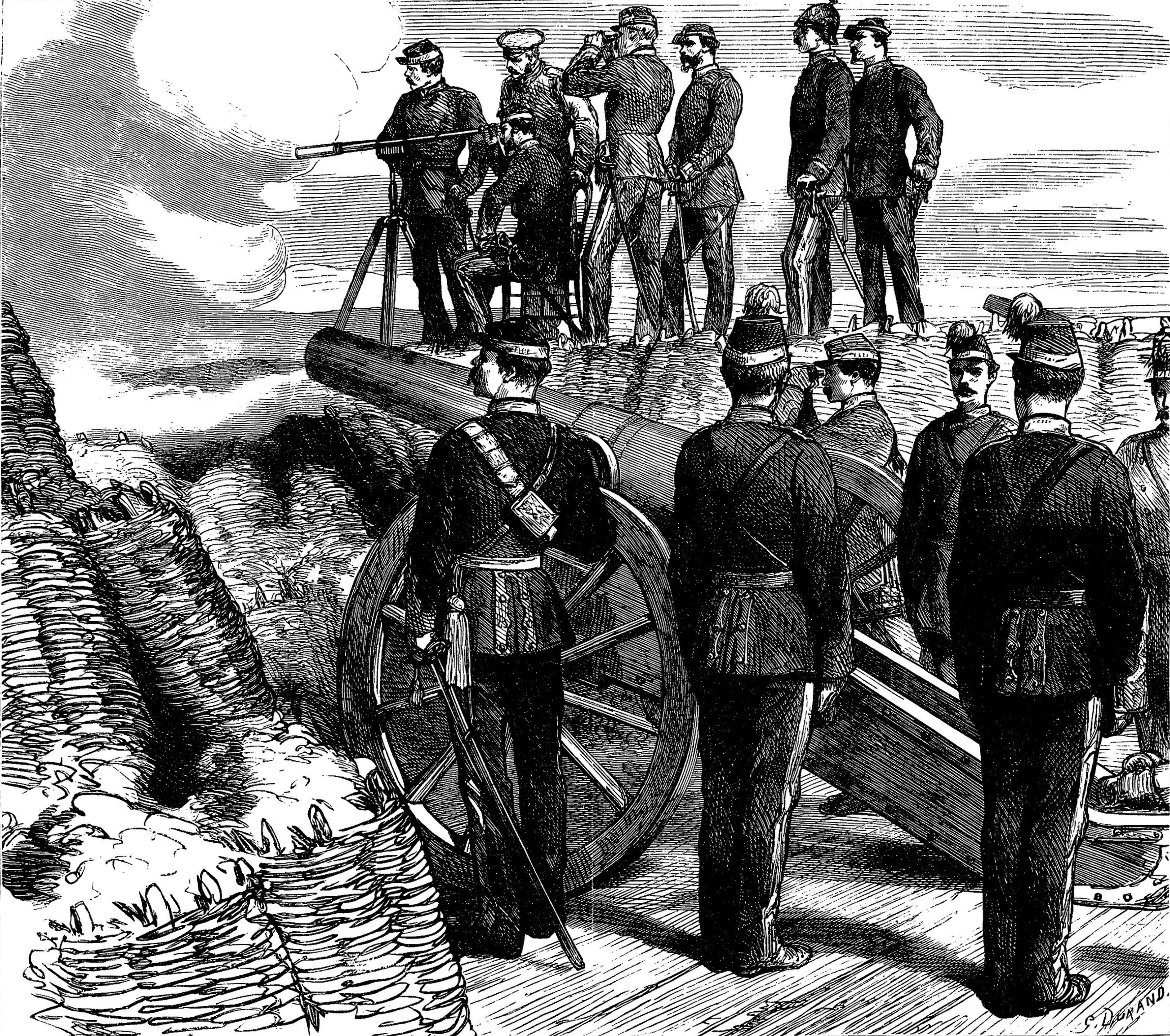 Cannonading at Kalafat - Prince Charles of Roumania watching the effect of the first shot from the Carl battery